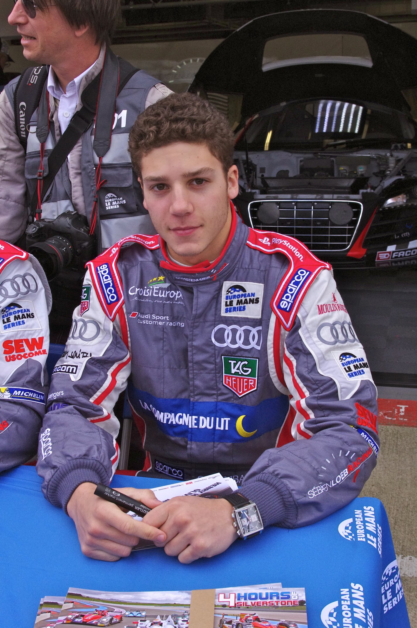 Olivier Lombard at 2014 Silverstone 6 Hours.